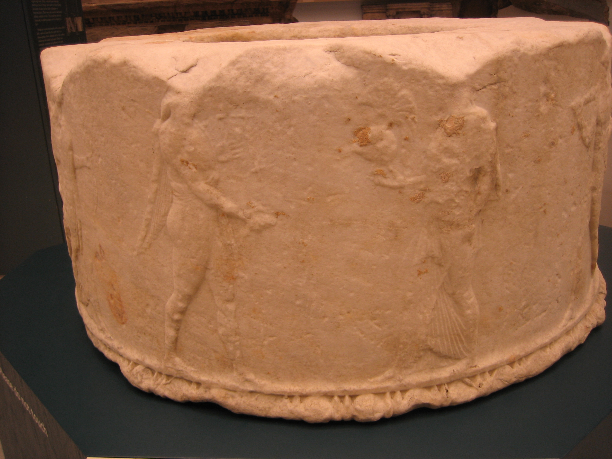 The Guilford Puteal or Corinth Puteal. A Pentelic marble Ancient Roman Wellhead (puteal). Bas-relief of Apollo (left) meeting Athena (right). The puteal was discovered in Corinth, and is now in the collection of the British Museum.